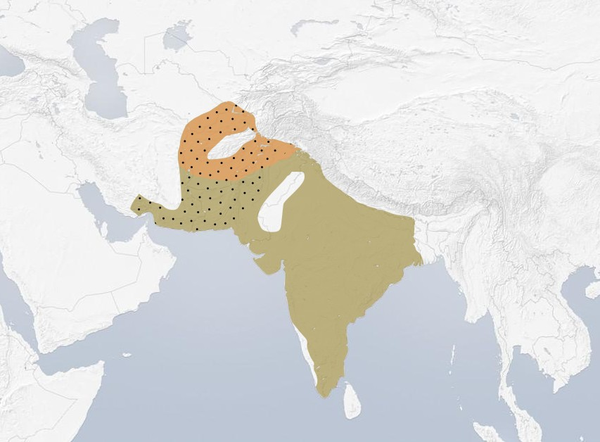 Distribution Map of Lanius vittatus